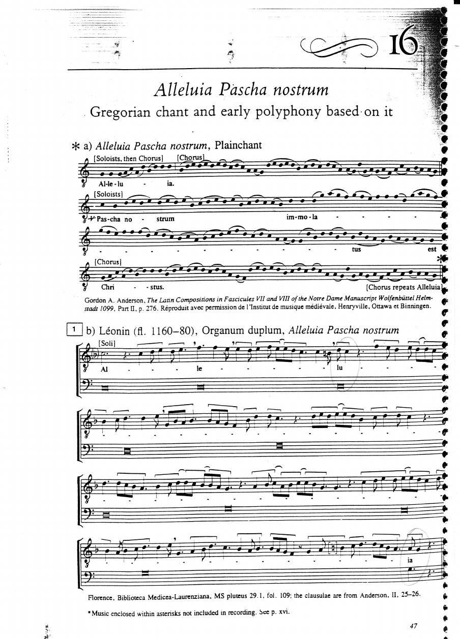 Score 1 of Alleluia Pascha nostrum Leonin